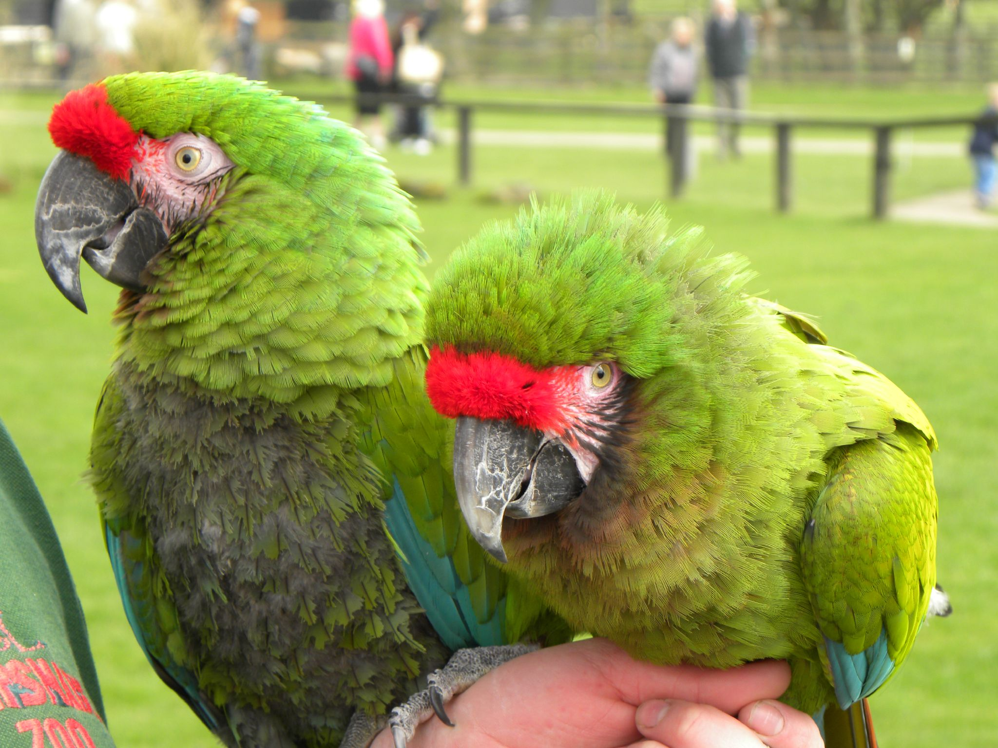 Two Military Macaws at Whipsnade Zoo, Bedfordshire, England. The macaw on the left has damaged feathers on its chest and abdomen probably because of a feather plucking habit.